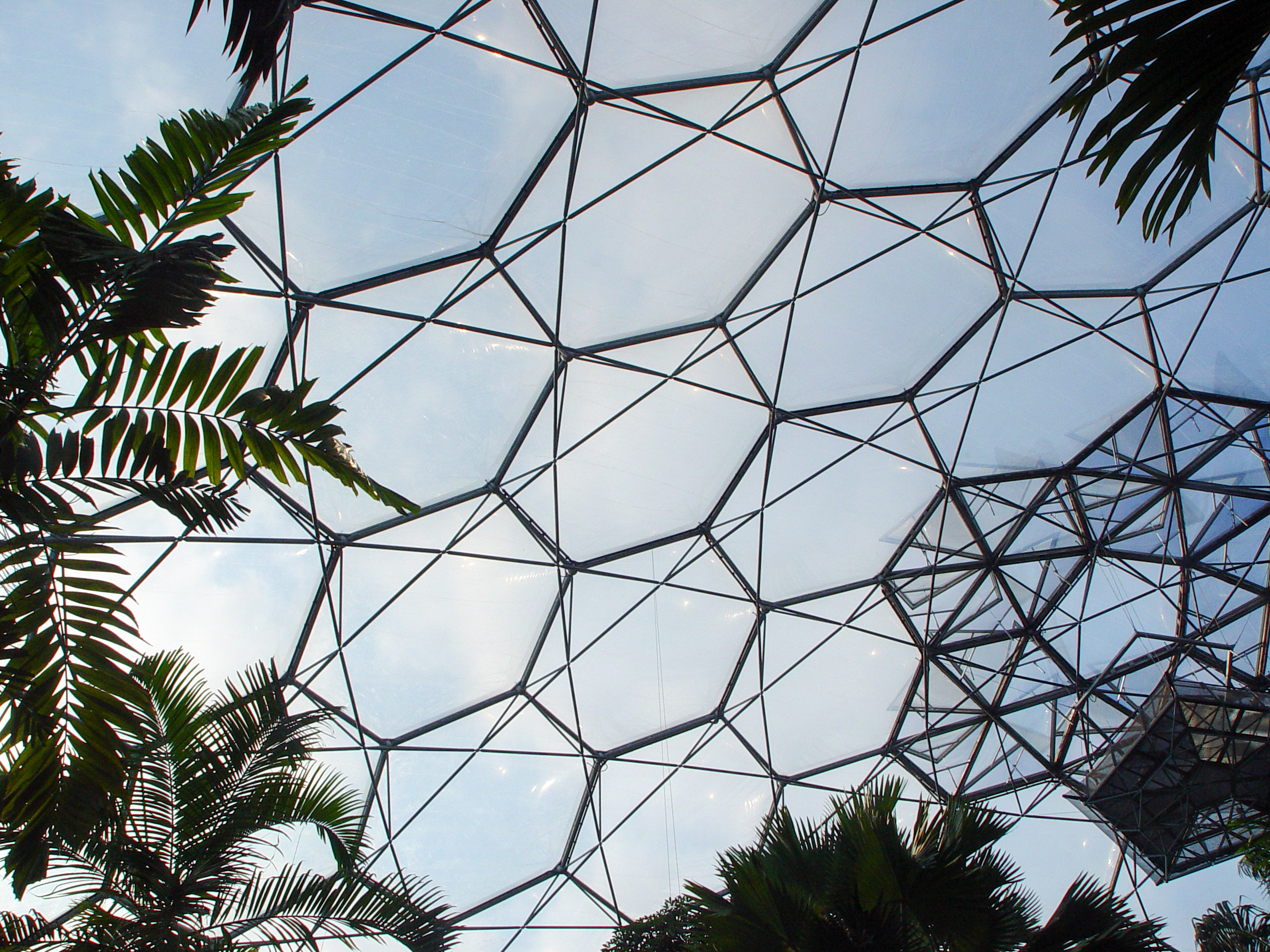 Hexagonal external cladding panels of roof in Eden Project Biomes (Cornwall, England,)